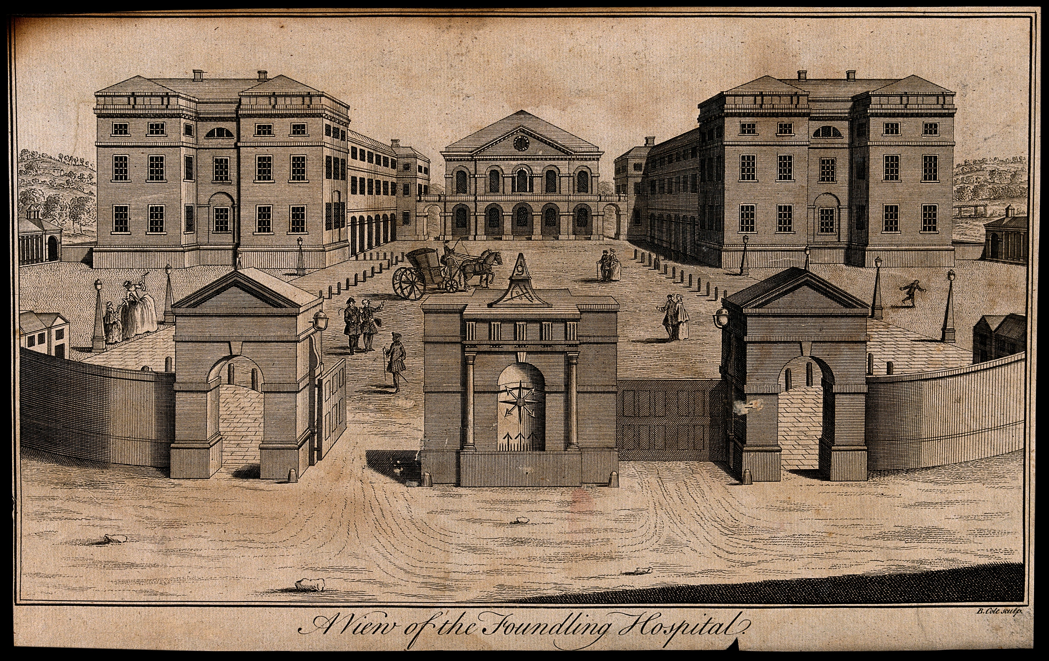 The Foundling Hospital, Holborn, London: a view of the courtyard. Engraving by B. Cole, 1754 [after P. Fourdrinier, 1742]. Iconographic Collections Keywords: Benjamin Cole; Theodore Jacobsen; Foundling Hospital (London) Plate engraving of Foundling Hospital in Holburn, London